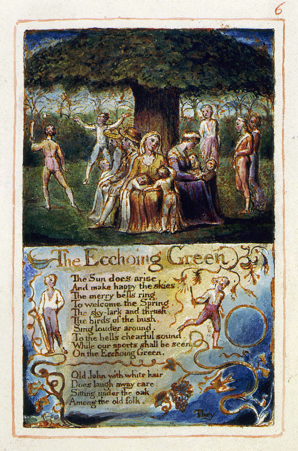 Songs of Innocence and of Experience, copy Z, 1826 (Library of Congress): electronic edition object 6 (Bentley 6, Erdman 6, Keynes 6)